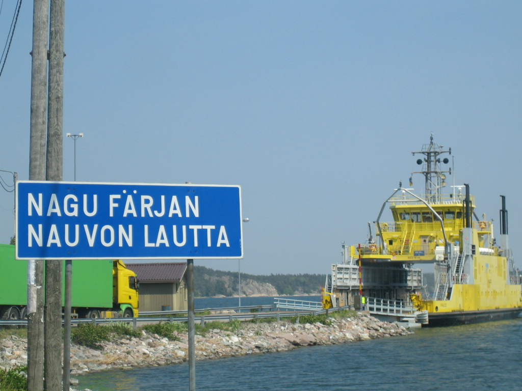 The car ferry between Pargas and Nagu in Finland.